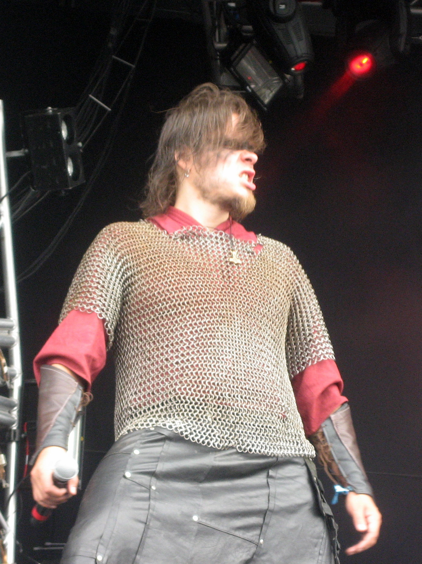 Tomi Mykkänen of the Finnish heavy metal band Battlelore at Bloodstock Open Air 2009